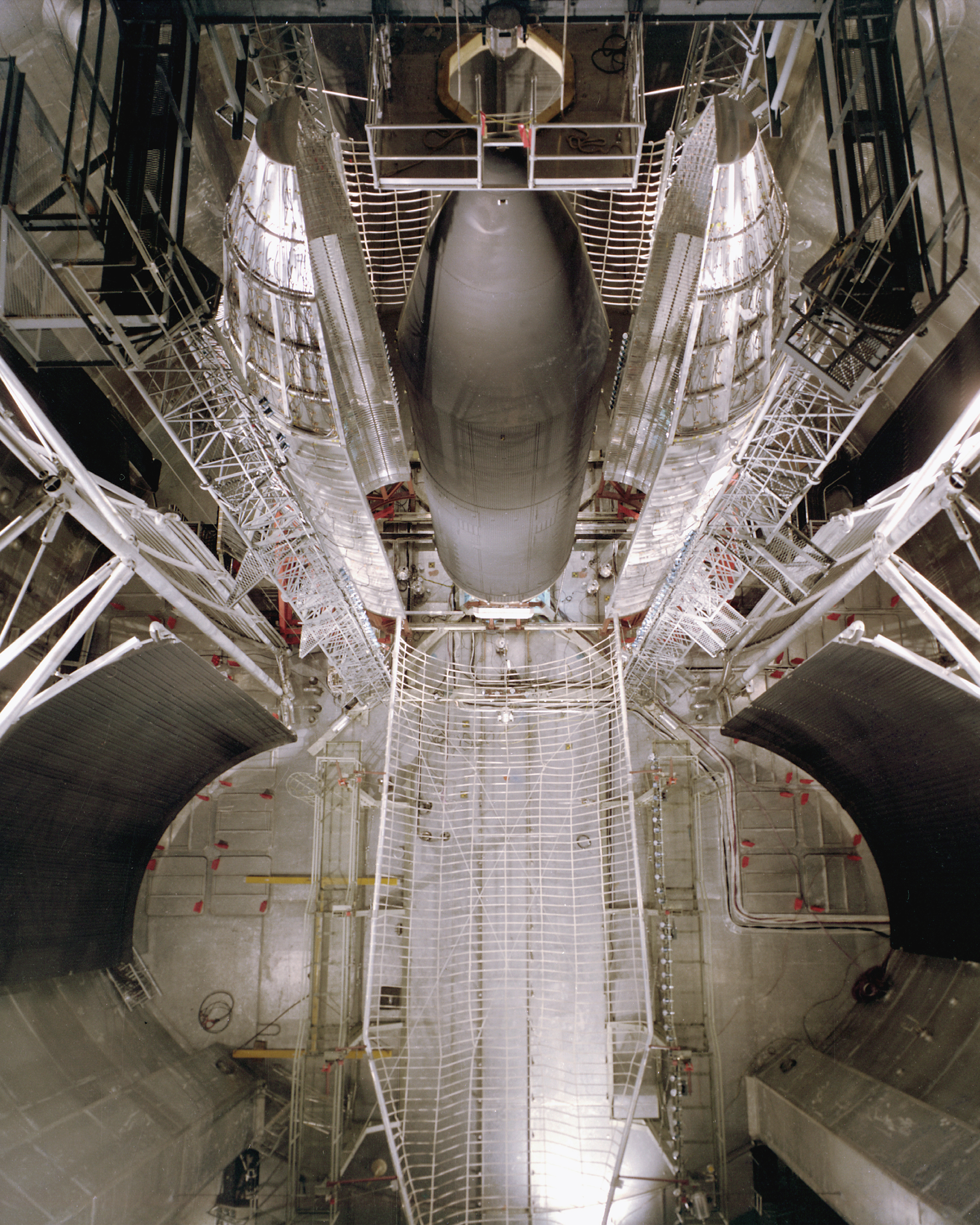 Centaur Standard Shroud in the NASA Lewis Research Center's (now known as the Glenn Research Center) Space Power Facility, Plum Brook Station. The shroud protects the spacecraft during launch.When it was constructed, the Space Power Facility (SPF) was the world's largest vacuum chamber. It stands more than 122 feet high, 100 feet in diameter and provides a vacuum environment for the study of space propulsion. Originally commissioned for nuclear-electric propulsion studies, the SPF has been recommissioned for current and future use in the ongoing research and development of space propulsion systems.